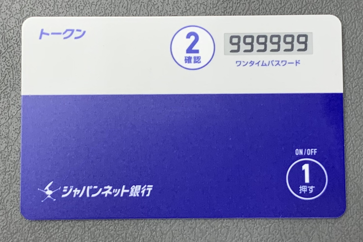 Japan Net Bank card type token